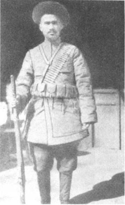 The uighur emir Nur Ahmad Jan Bughra, killed at Yangi Hissar in April 16 1934 by chinese muslim forces. Brother of Abdullah Bughra and Muhammad Amin Bughra